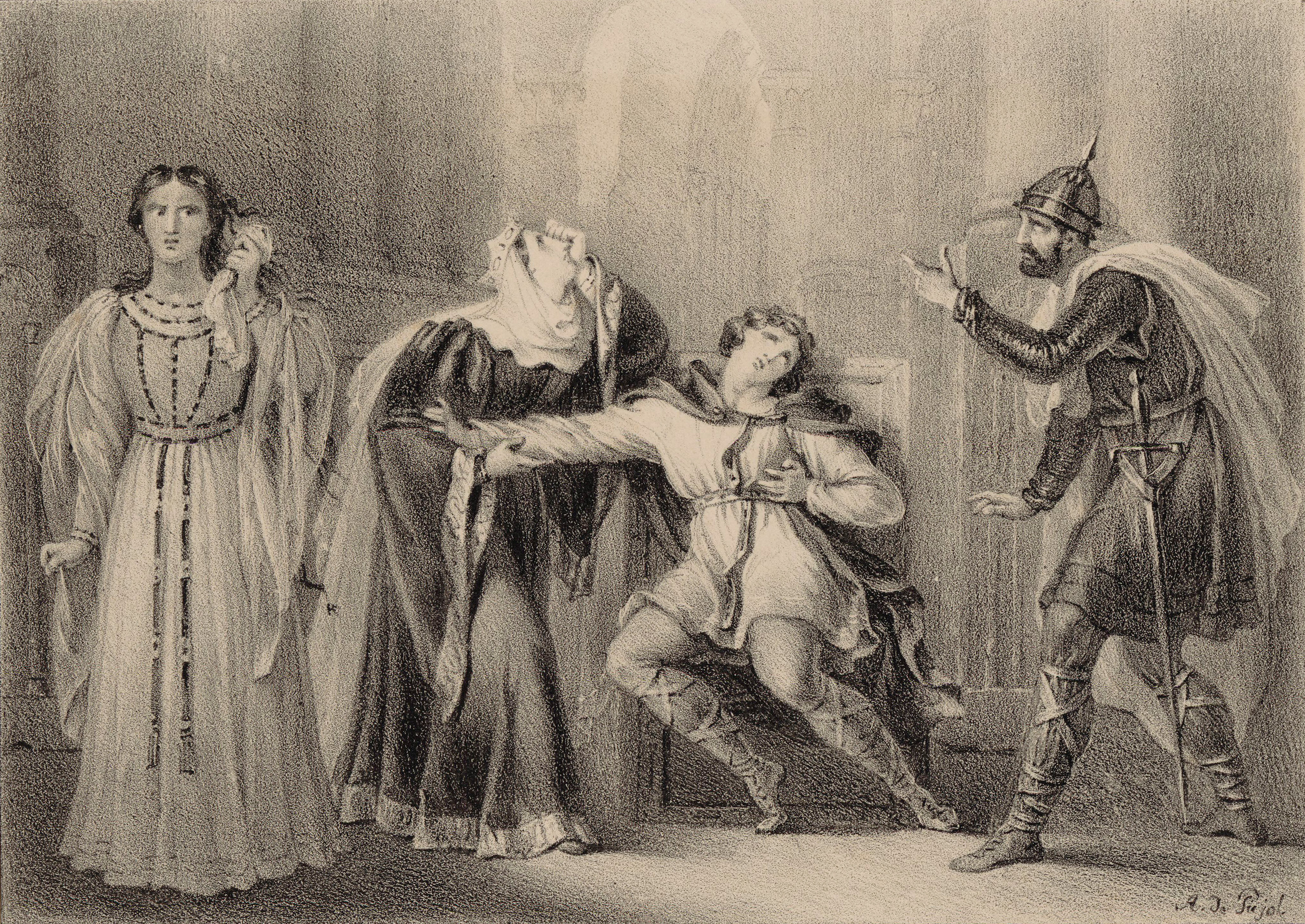 Scene from Hippolyte Bis' tragedy Blanche d'Aquitaine ou Le dernier des Carlovingiens (1827)